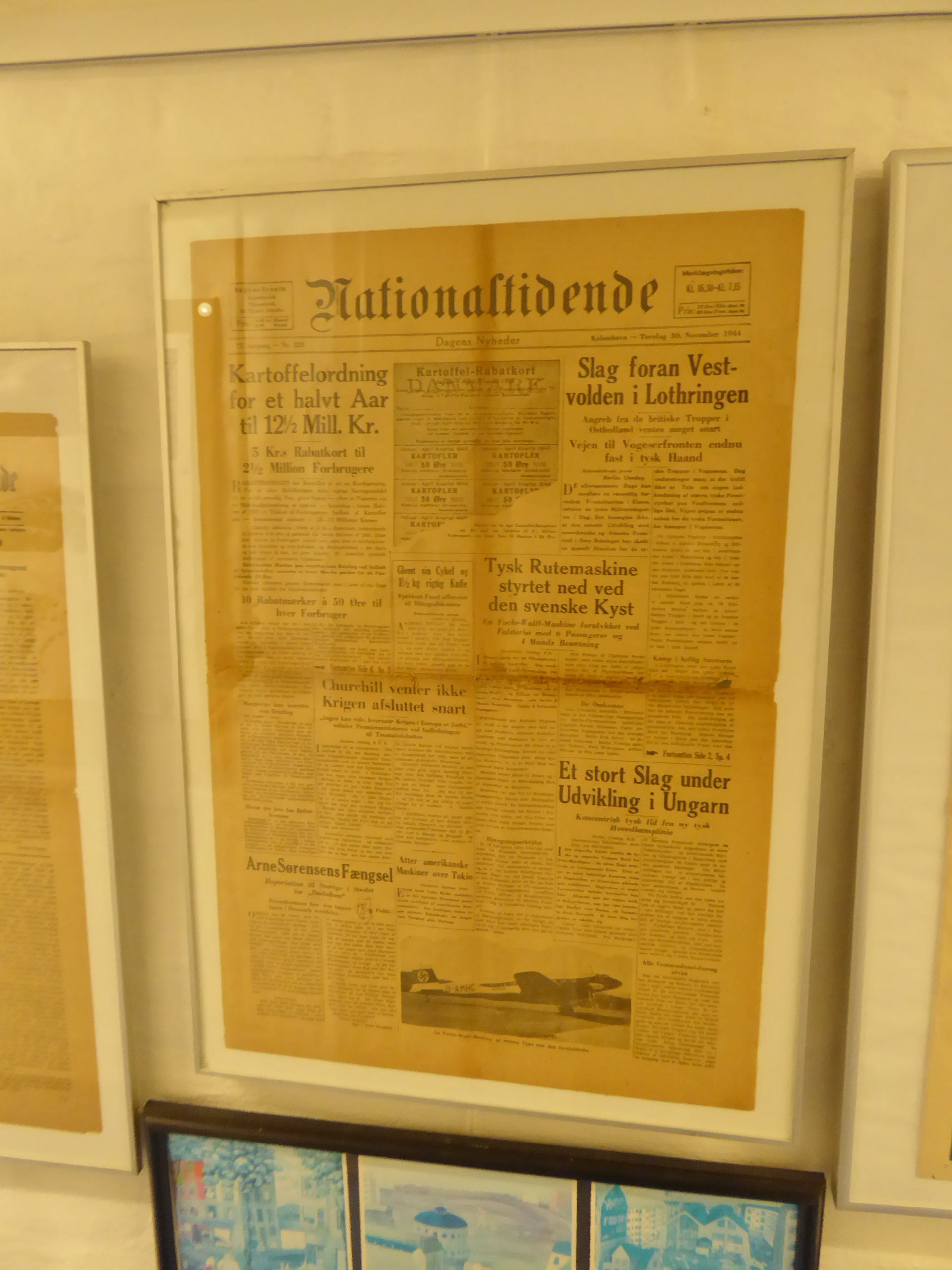 Example of the Danish newspaper Nationaltidende of 30 November 1944 in Østerbro lille Museum in Copenhagen.